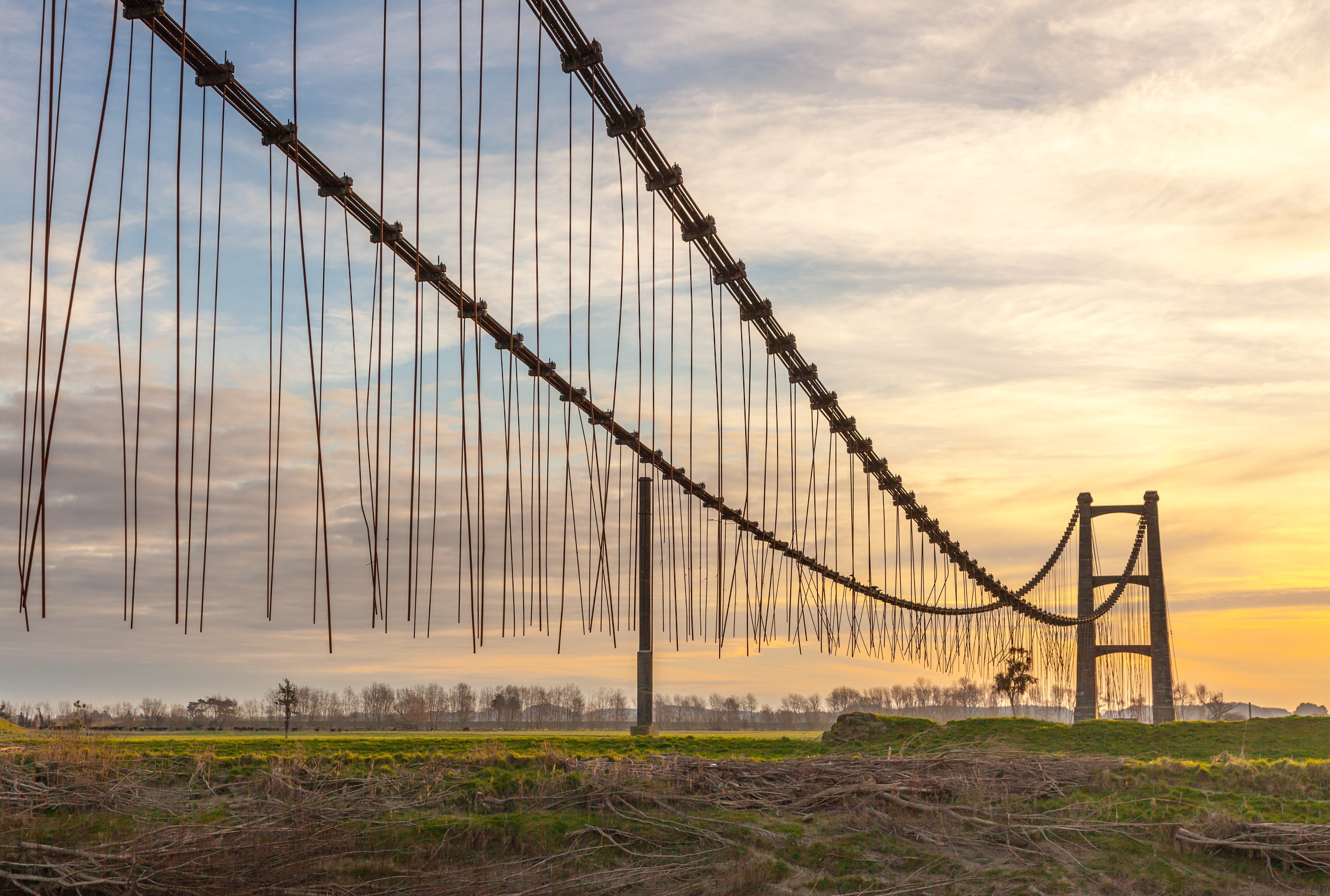 Over the Manawatu River. In use from 1918 to 1969.